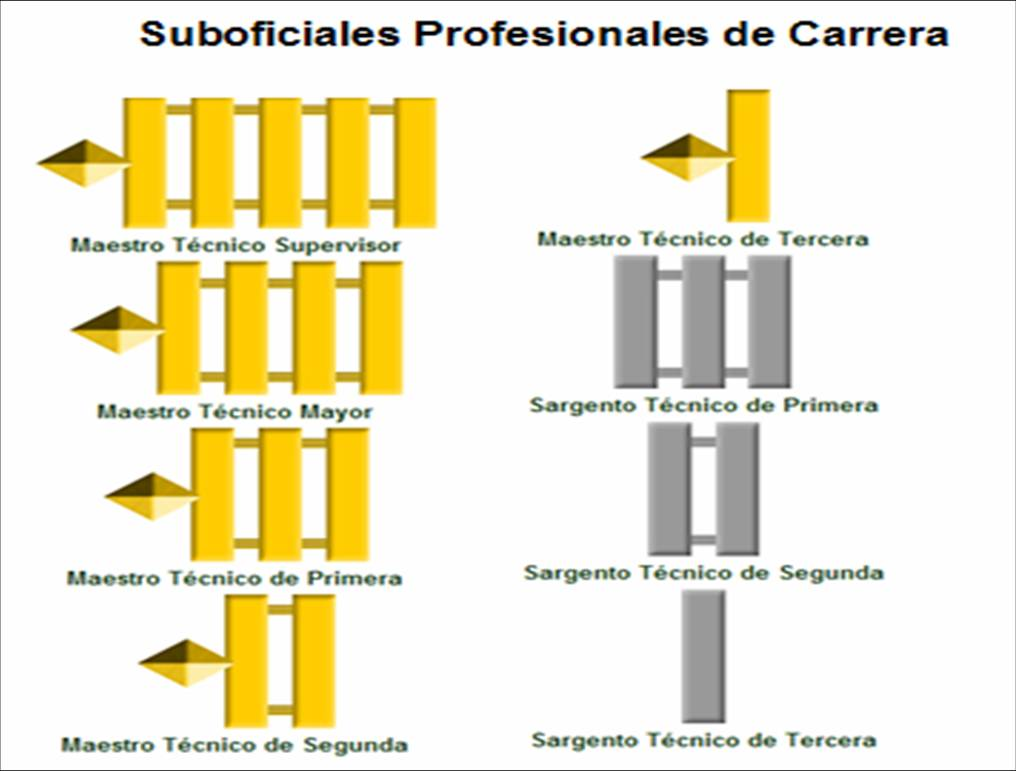 SOPC Venezuelan Army Ranks